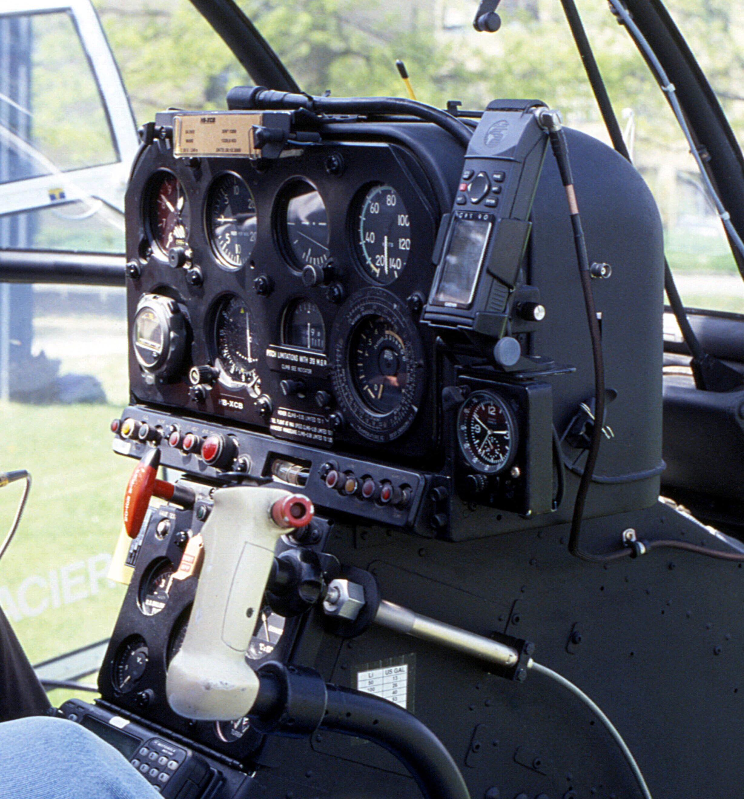 Cropped and enhanced original from Commons Image:Alouette-III-EPFL-01.jpg